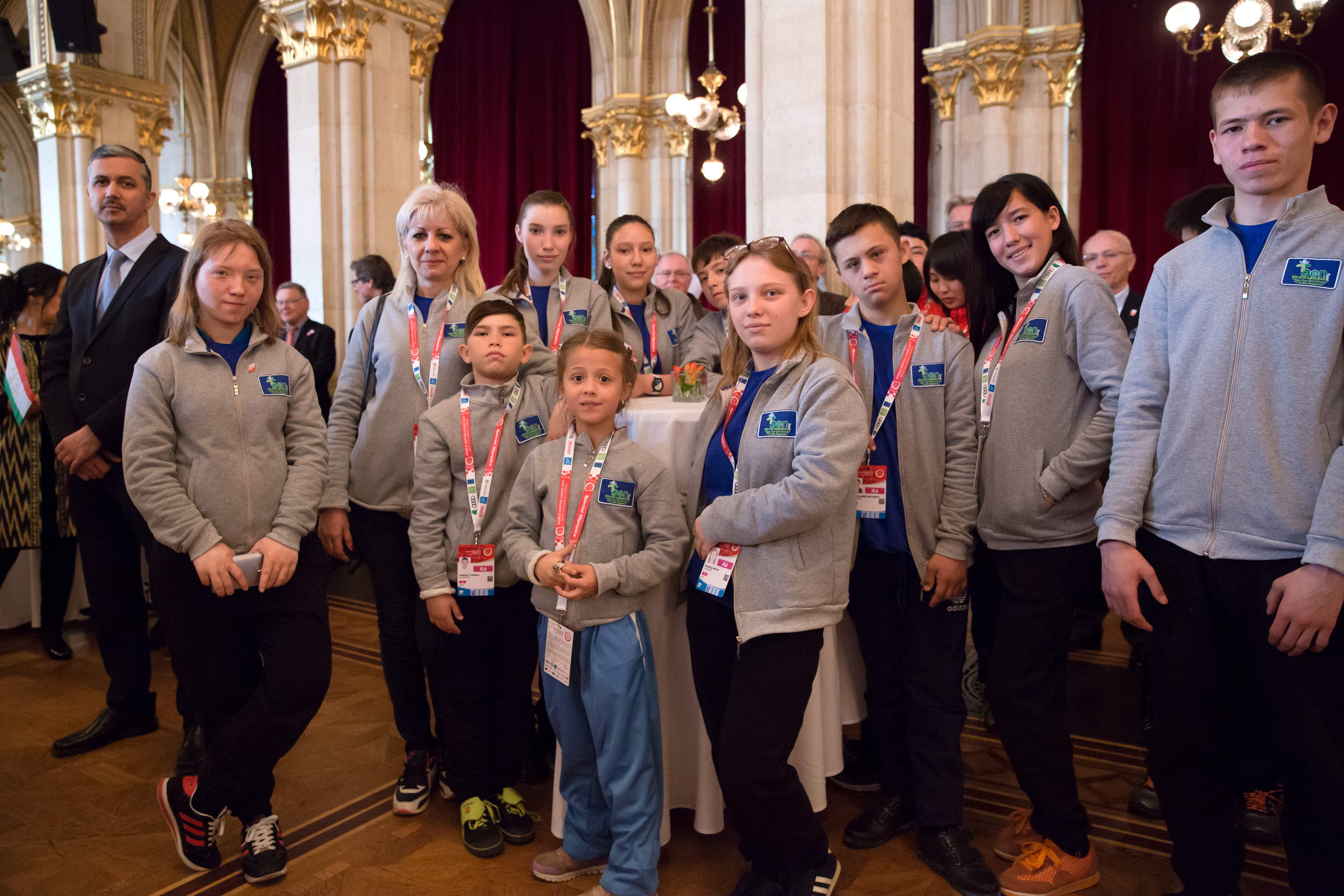 Team members from Uzbekistan for the 2017 Special Olympics World Winter Games at the reception at Rathaus, Vienna.